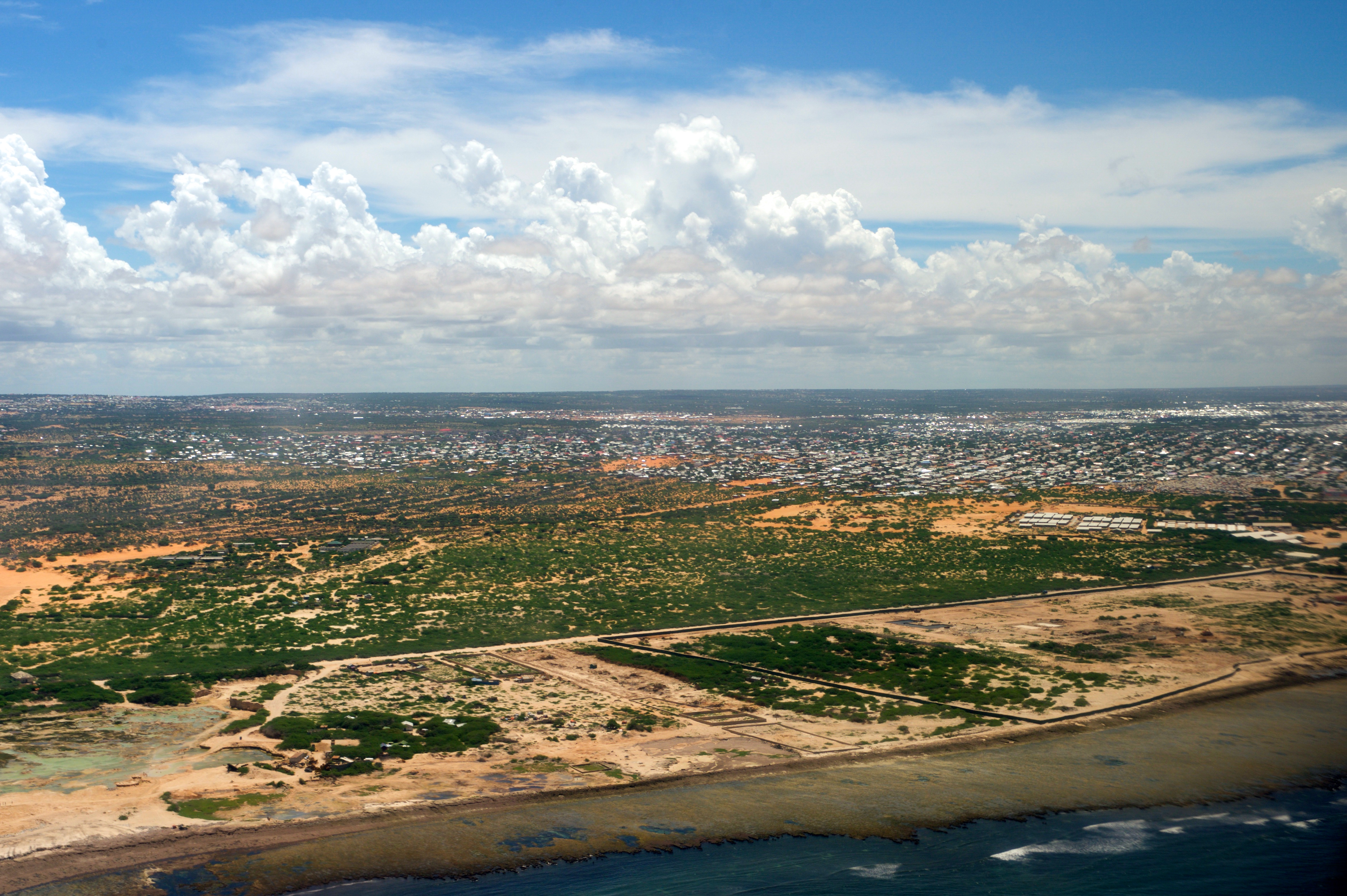 A view of Mogadishu, Somalia, as seen from the aircraft carrying U.S. Secretary of State John Kerry on May 6, 2015, when he became the first Secretary of State to visit Somalia. He held meetings with Somali President Hassan Sheikh Mohamud, Prime Minister Omar Abdirashid Ali Sharmarke, Somali regional leaders, members of Somali civil society, and U.S. Special Representative for Somalia James McAnulty. [State Department Photo/Public Domain]